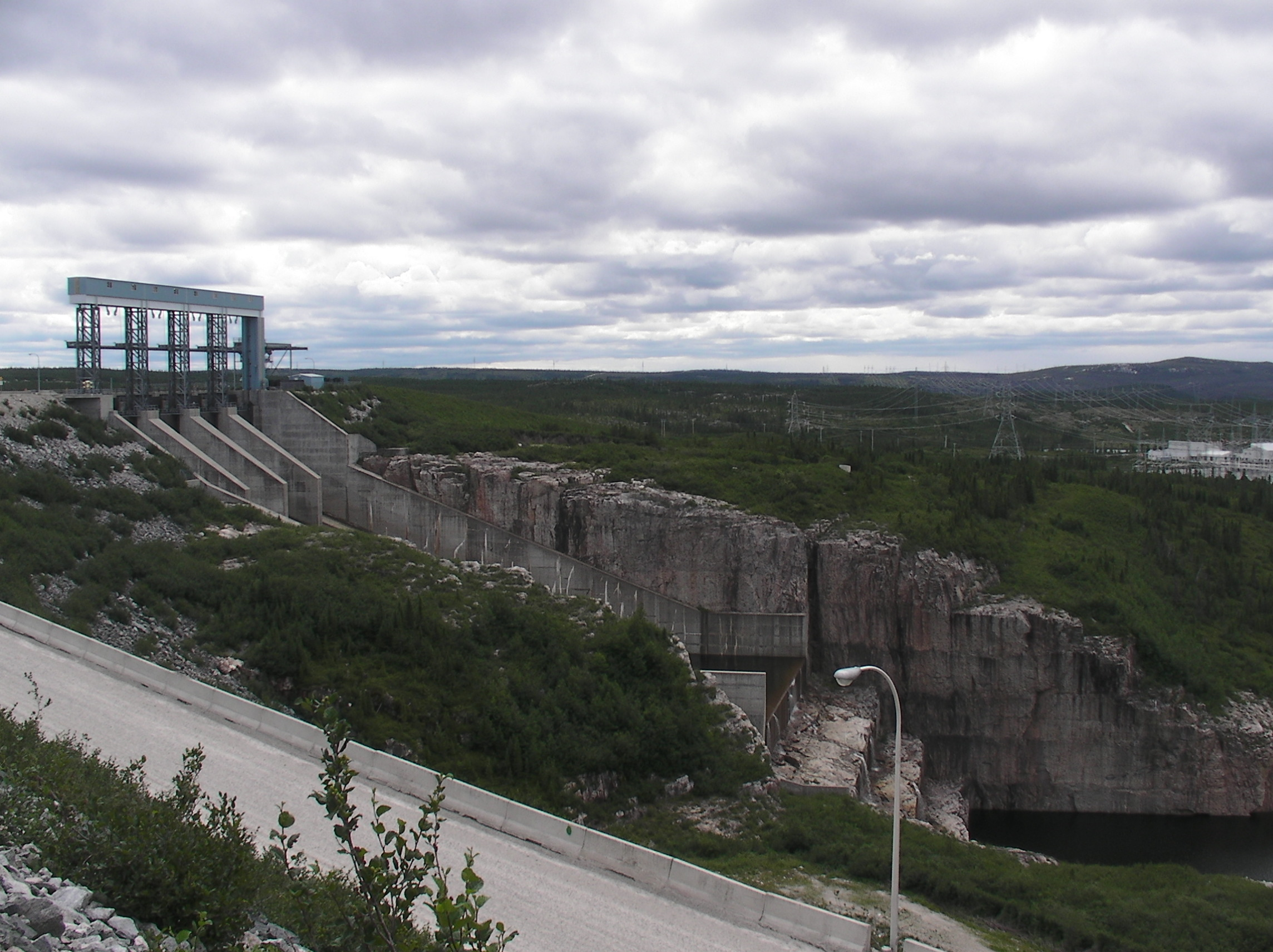 Dam and spillway LG4